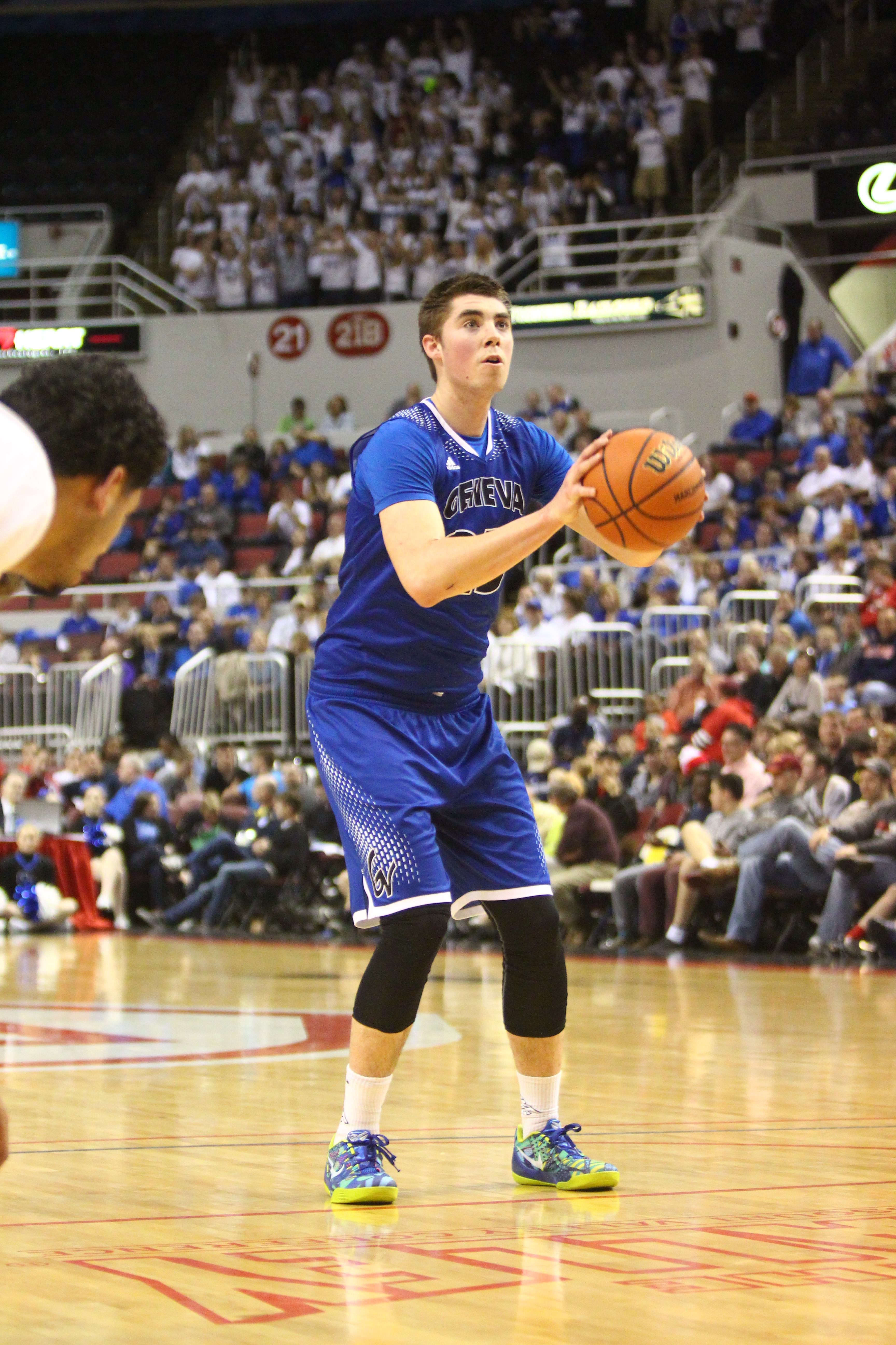 Nate Navigato in the 2015 IHSA Class 4A consolation game